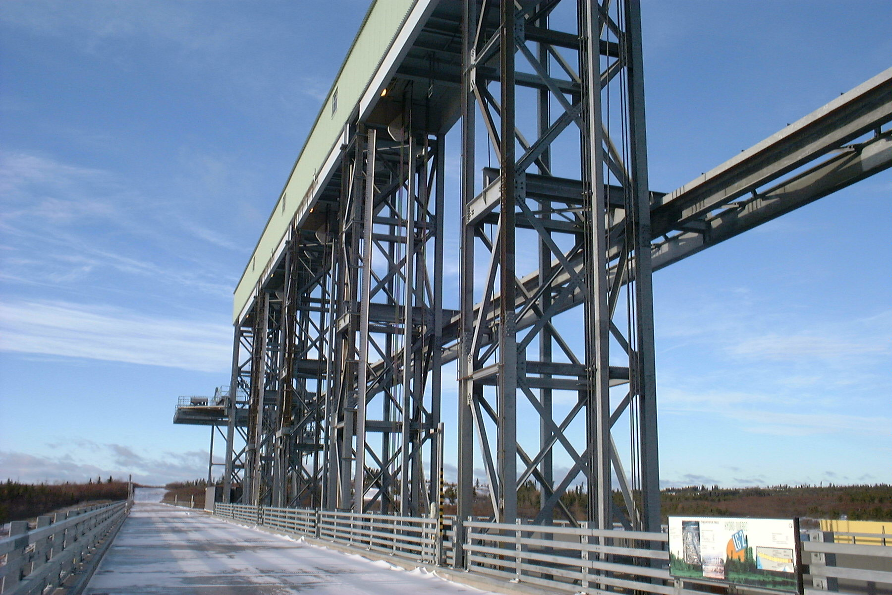 Overflow valves of the spillway at the Robert-Bourassa hydroelectric complex.